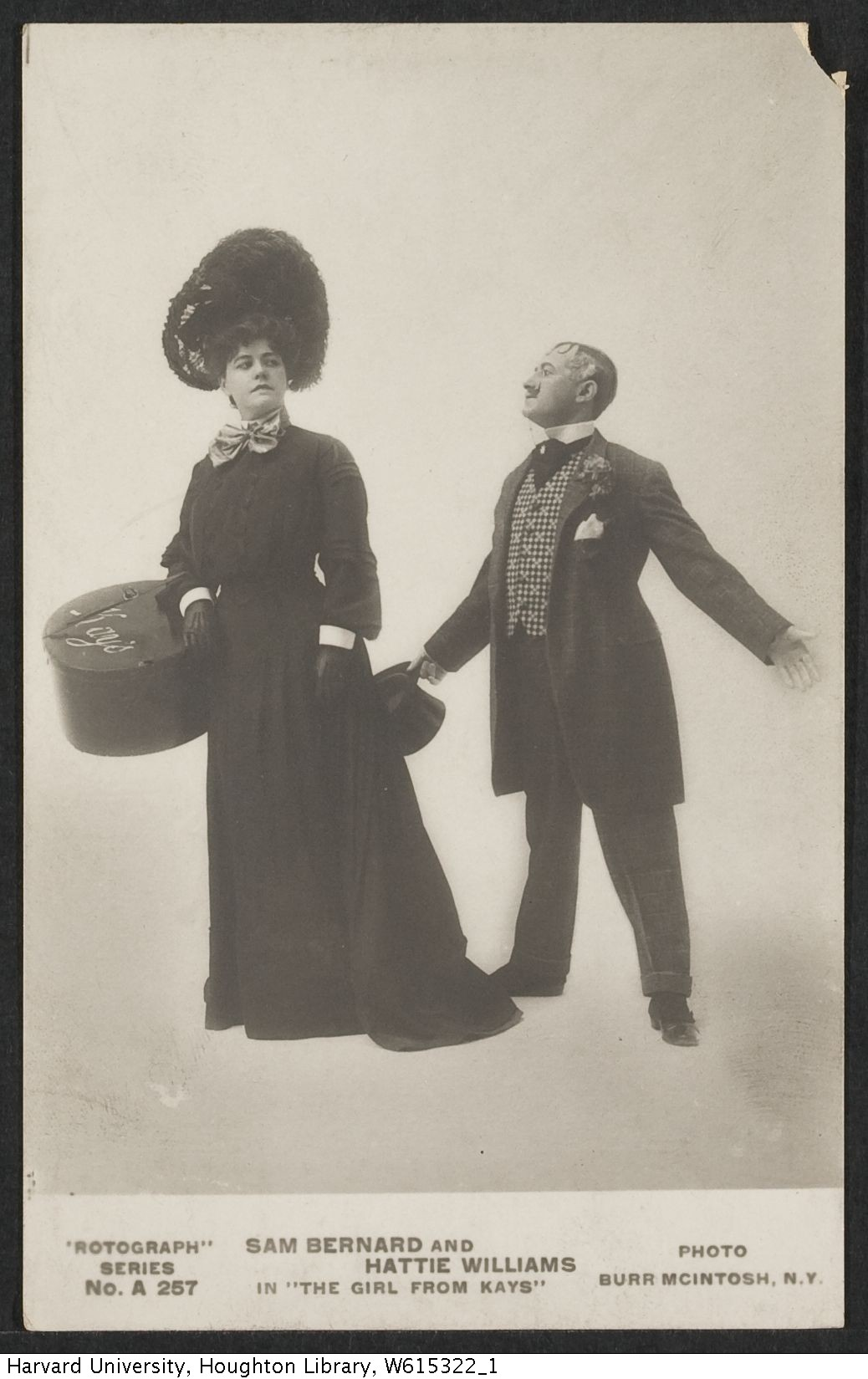 Cabinet card image of vaudeville actors Hattie Williams and Sam Bernard, in character for The Girl from Kays (circa 1904). TCS 1.2419, Harvard Theatre Collection, Harvard University.